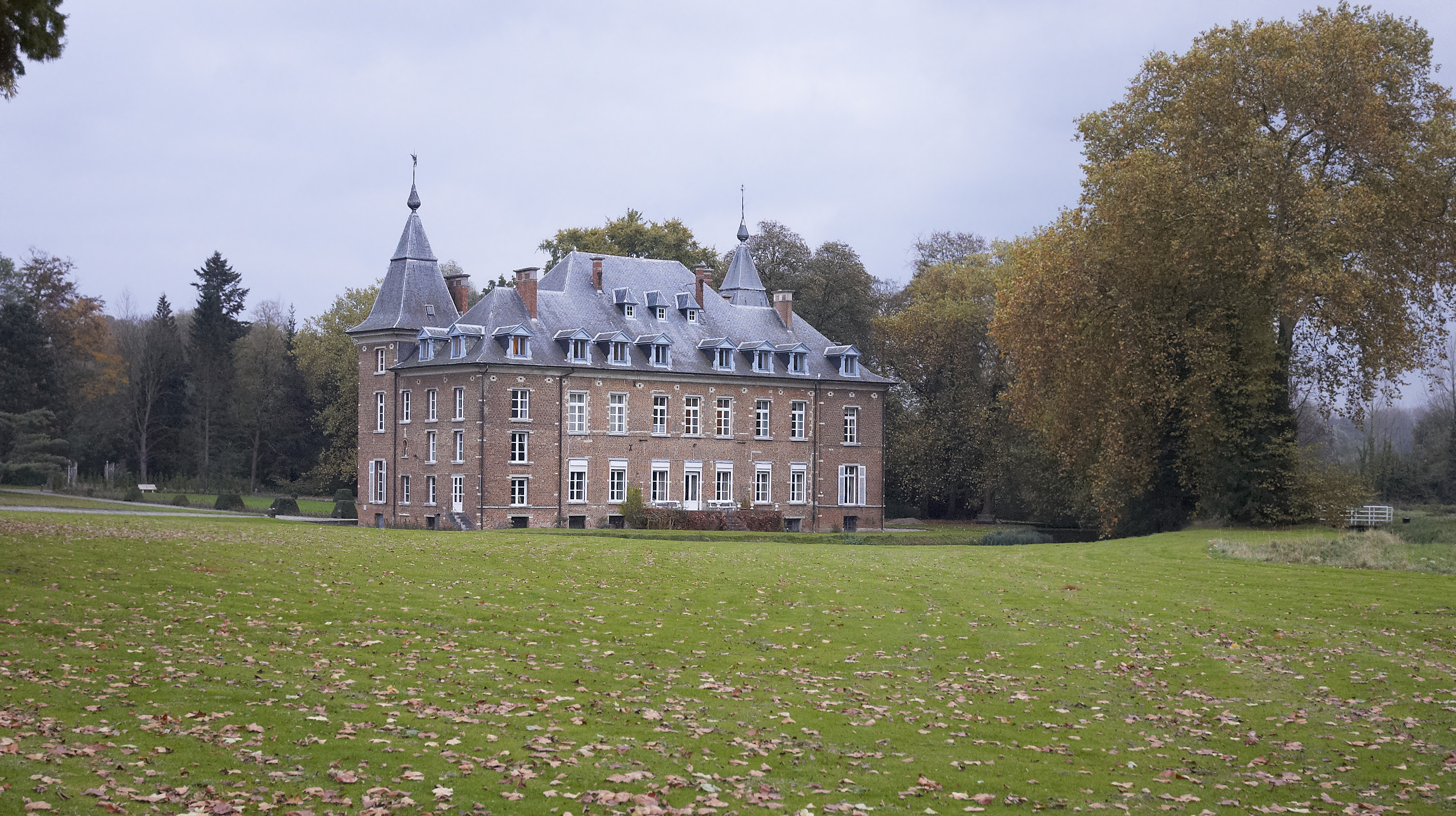 Castle in Huldenberg, Belgium